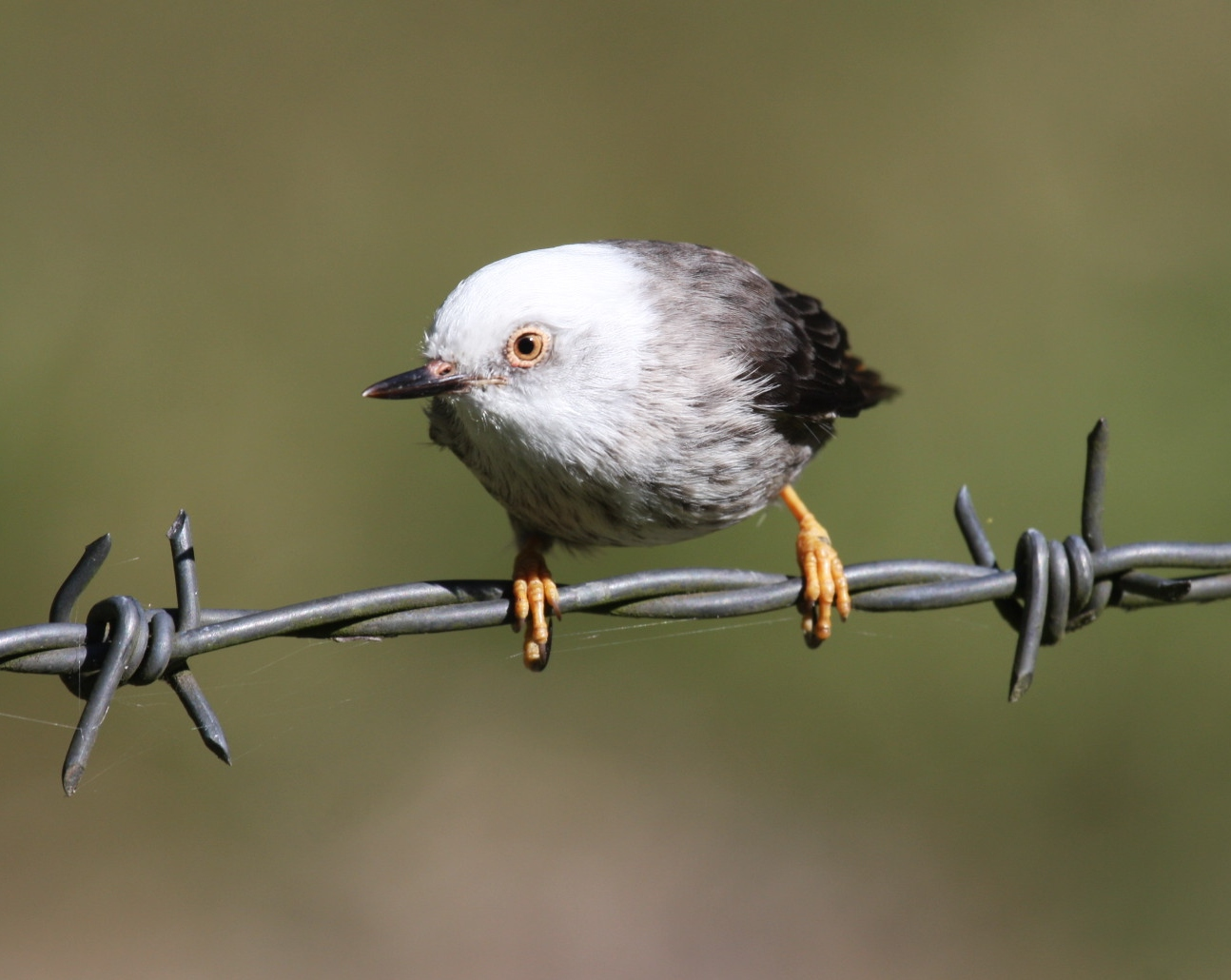 Varied Sittella (Daphoenositta chrysoptera) Lacey's Creek, SE Queensland, Australia